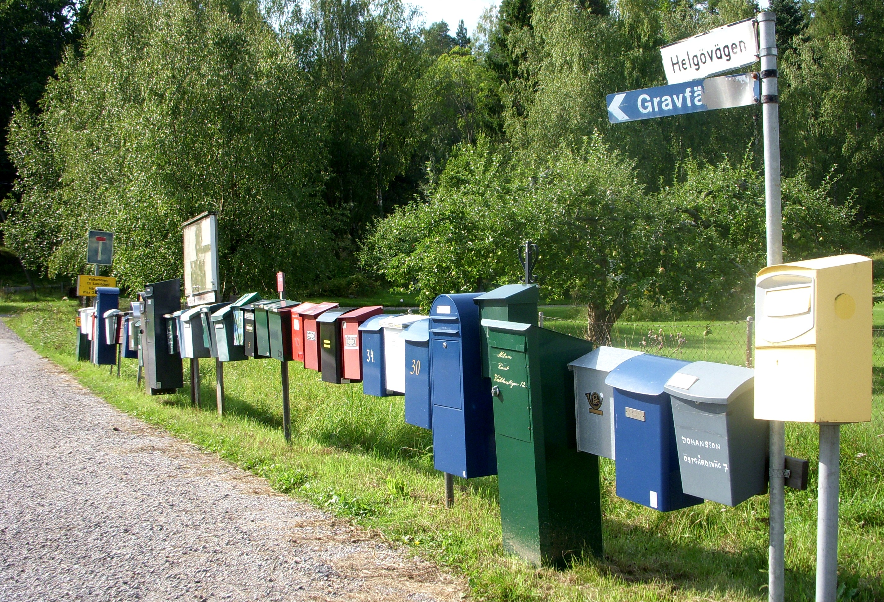 Swedish letter boxes on Helgö